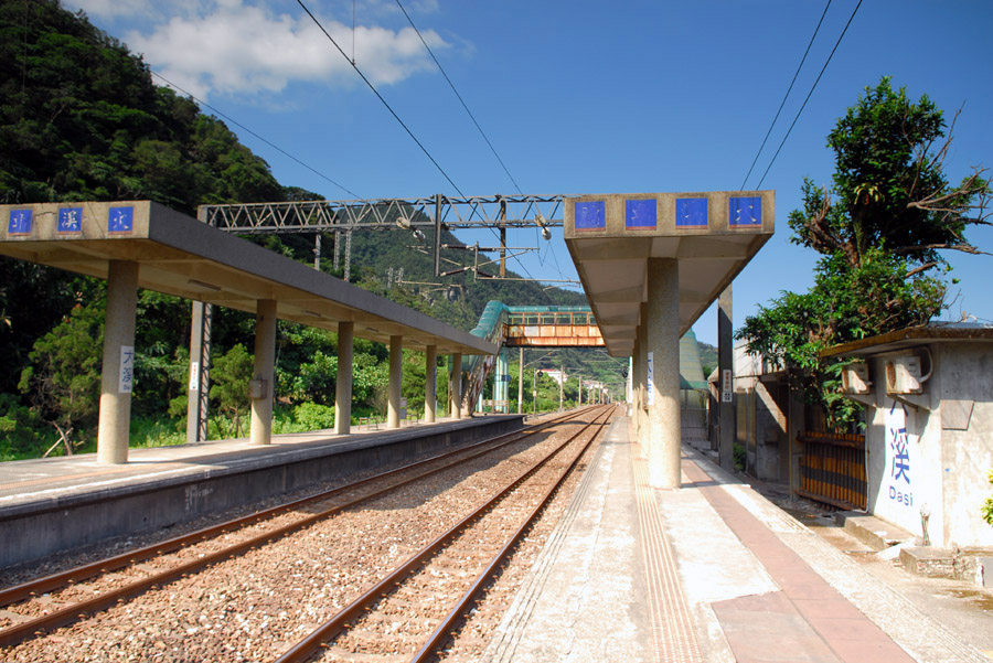 DaSi Station is a small local train station of Yilan Line, part of Taiwan's eastern rail line. It's located within the boundary of TouCheng Town, YiLan County. This photo shows the platforms and skybridge of the station.